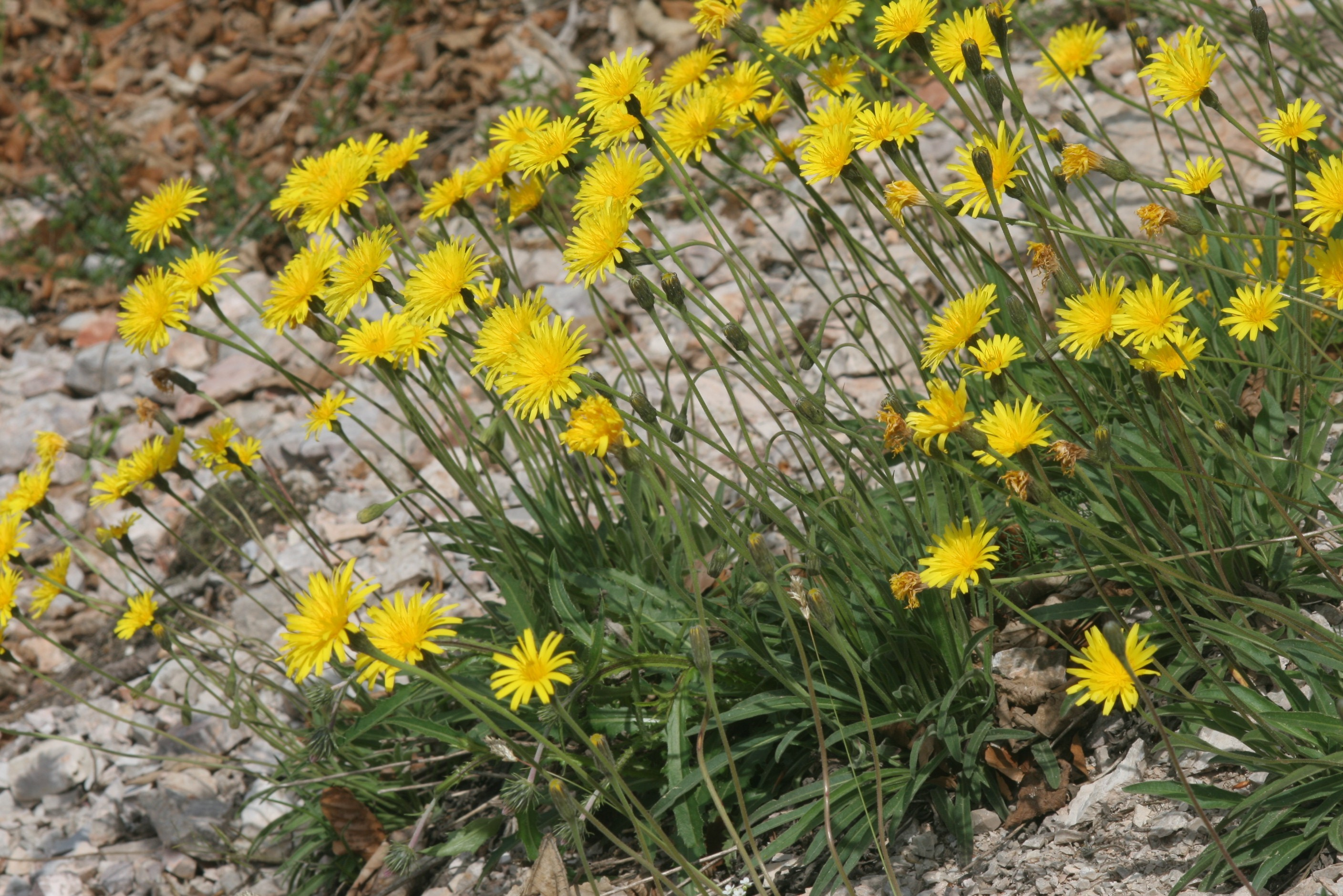 Leontodon incanus